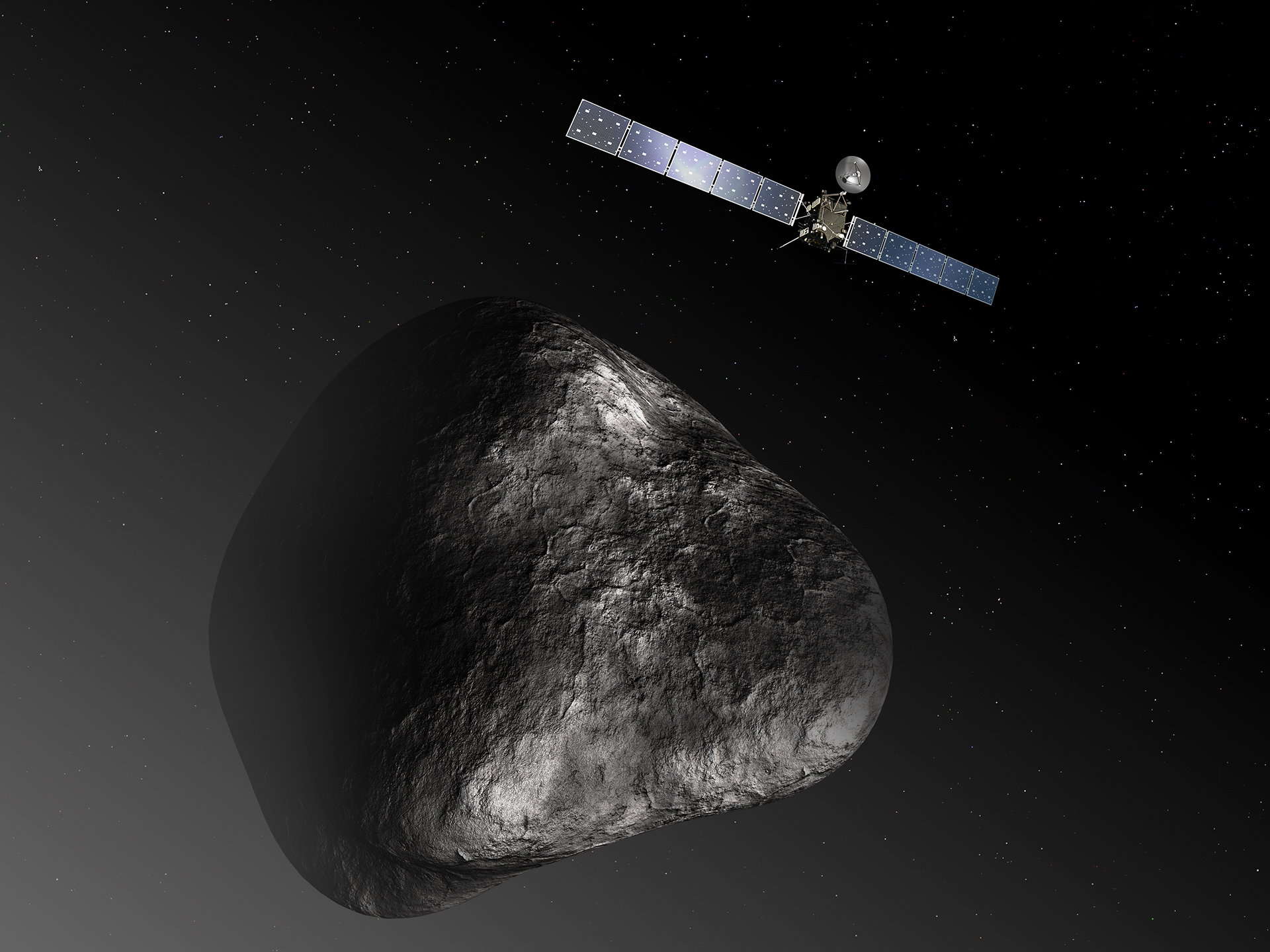 Artist’s impression of the Rosetta orbiter at comet 67P/Churyumov–Gerasimenko. The image is not to scale; the Rosetta spacecraft measures 32 m across including the solar arrays, while the comet nucleus is thought to be about 4 km wide. Credit: ESA–C. Carreau/ATG medialab